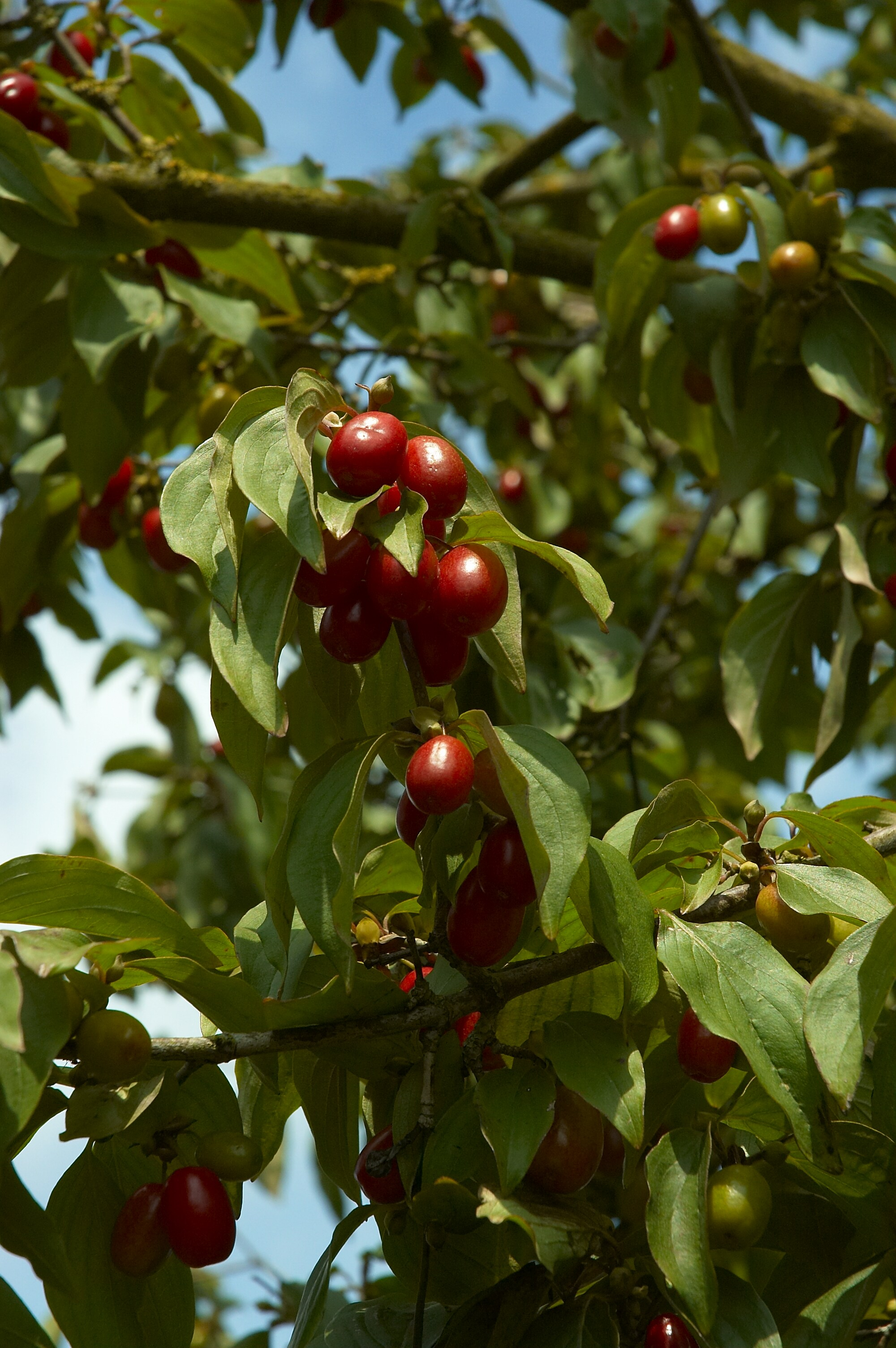 European Cornel or Cornelian cherry